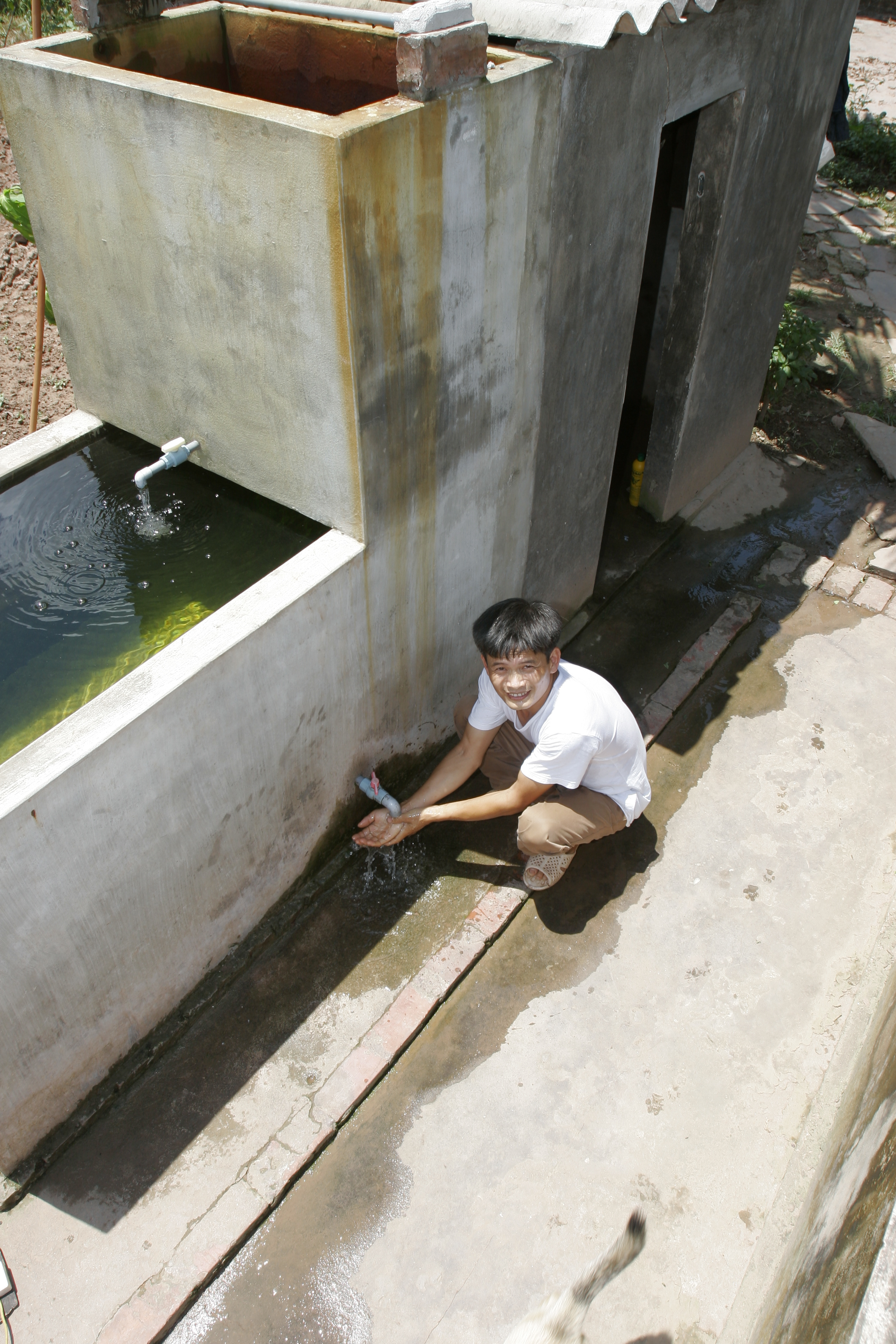 Dao Van Manh has peace of mind since he installed a sand filter into his water supply Photo: AusAID To request copyright use and access to hi-res versions of this photo